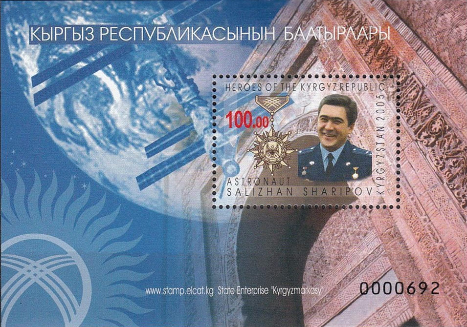 Stamp of Kyrgyzstan